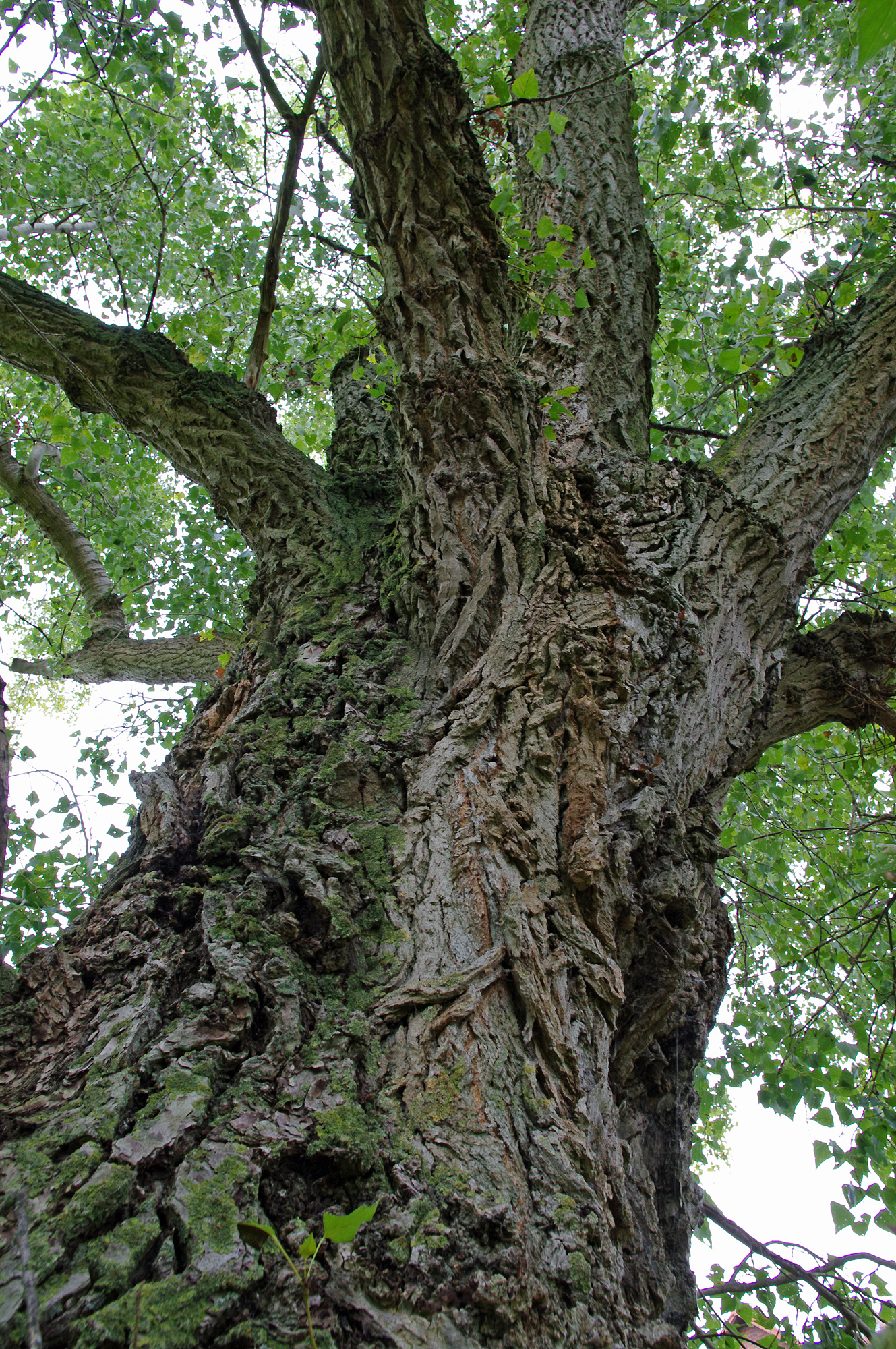 Stem of an old genuine Black poplar, Populus nigra ssp. nigra, with strikingly shaped bark.